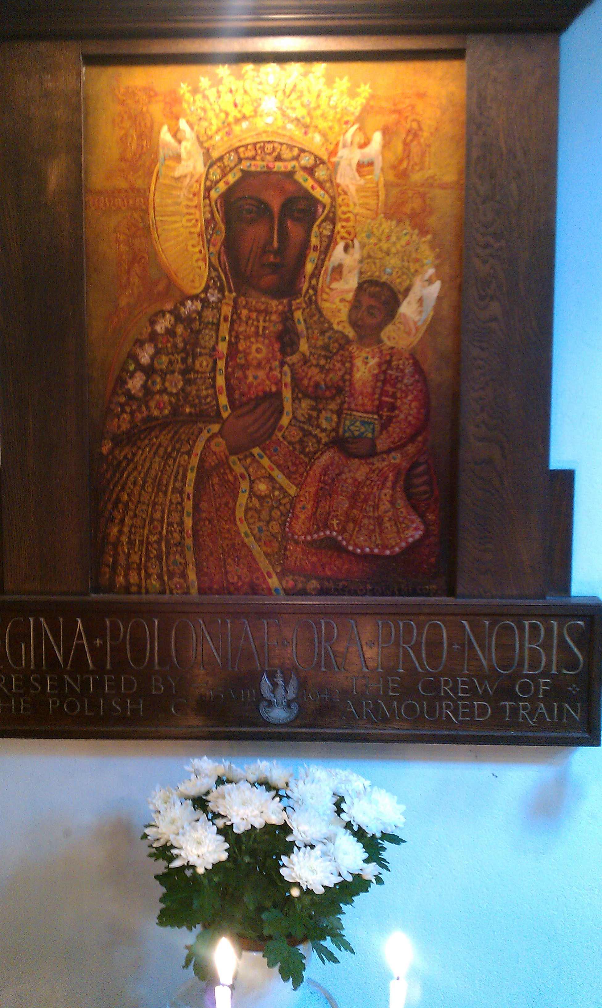 Inscription "Regina Poloniae Ora Pro Nobis (Queen of Poland, Pray for us) - Donated by the crew of the Polish "C" Armoured Train" who were stationed near Ipswich, this icon represents the Polish presence in Saint Pancras.